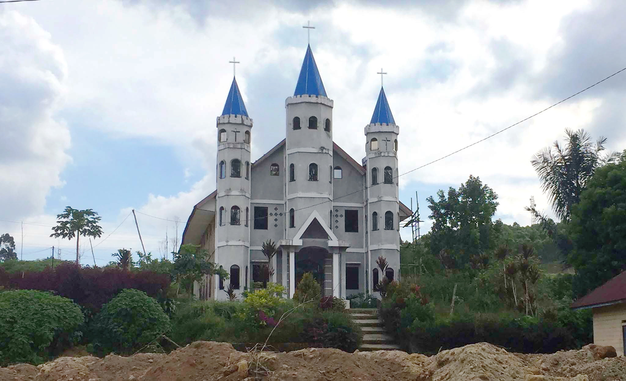 HKBP Aek Natolu, Church in Aek Natolu Jaya, Jumban Julu, Toba Samosir